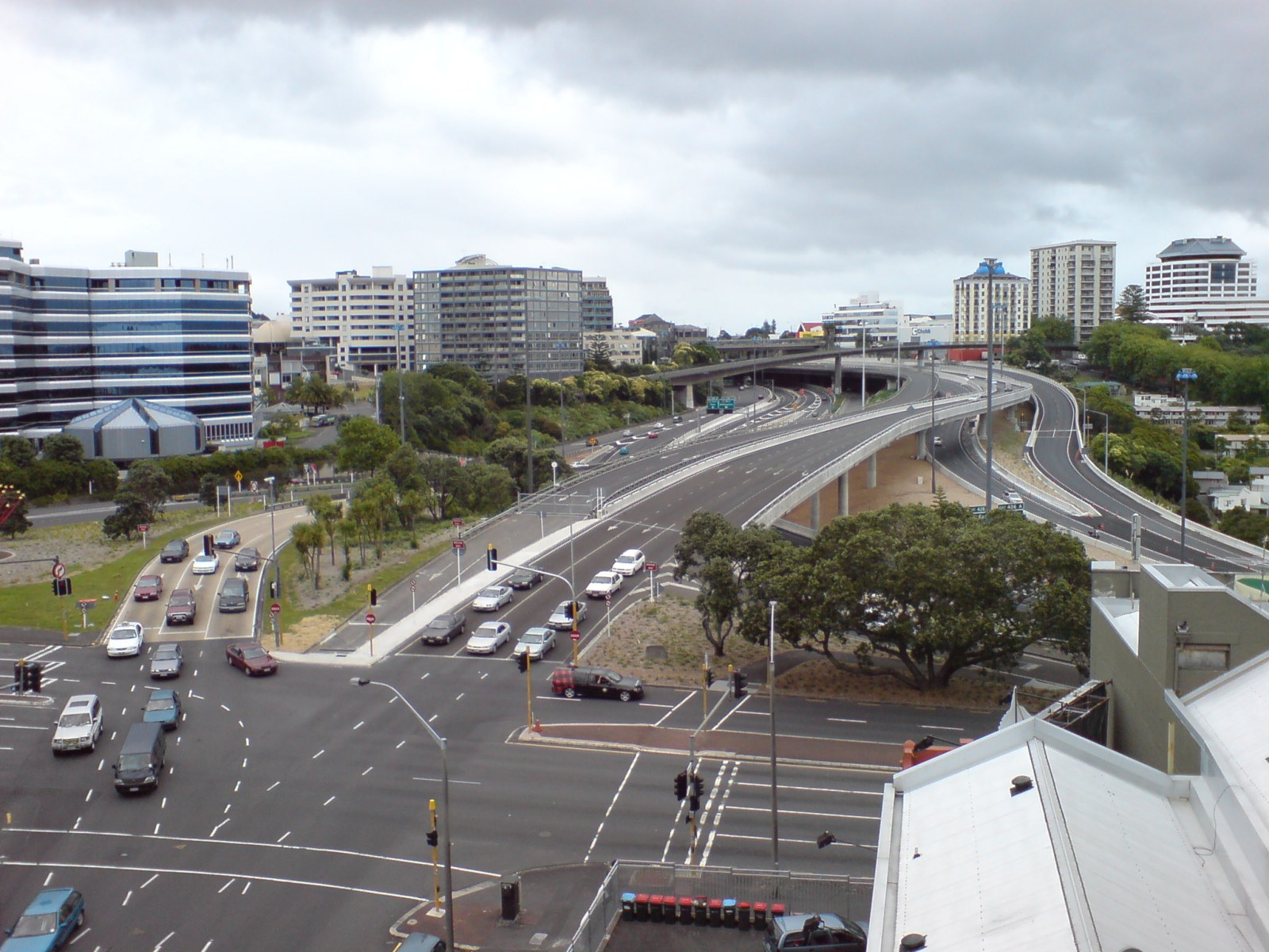 The northern end of the Central Motorway Junction (CMJ) (also known as 'Spaghetti Junction') in Auckland City, New Zealand, looking south at the Nelson Street offramps. The roads in the distance travel under the K'Road overbridge.